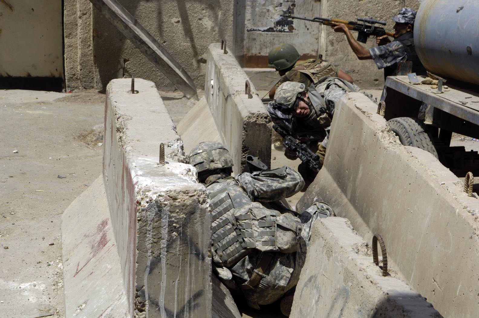 U.S. Army Pfc. Leyland Tyrone, Pvt. Thomas J. Mclean and Sgt. Christopher M. Price, of the 4th Platoon, Delta Company, 2nd Battalion, 12th Infantry Regiment, 2nd Brigade Combat Team, 2nd Infantry Division out of Fort Carson, Colo., take cover and return small arms fire on anti-coalition positions in the area of Dora in southern Baghdad, Iraq